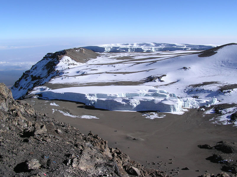 Glacier at summit of Mt Kilimanjaro. This is the Furtwängler Glacier which has been rapidly disappearing, having lost a third of its thickness between 2000 and 2006.